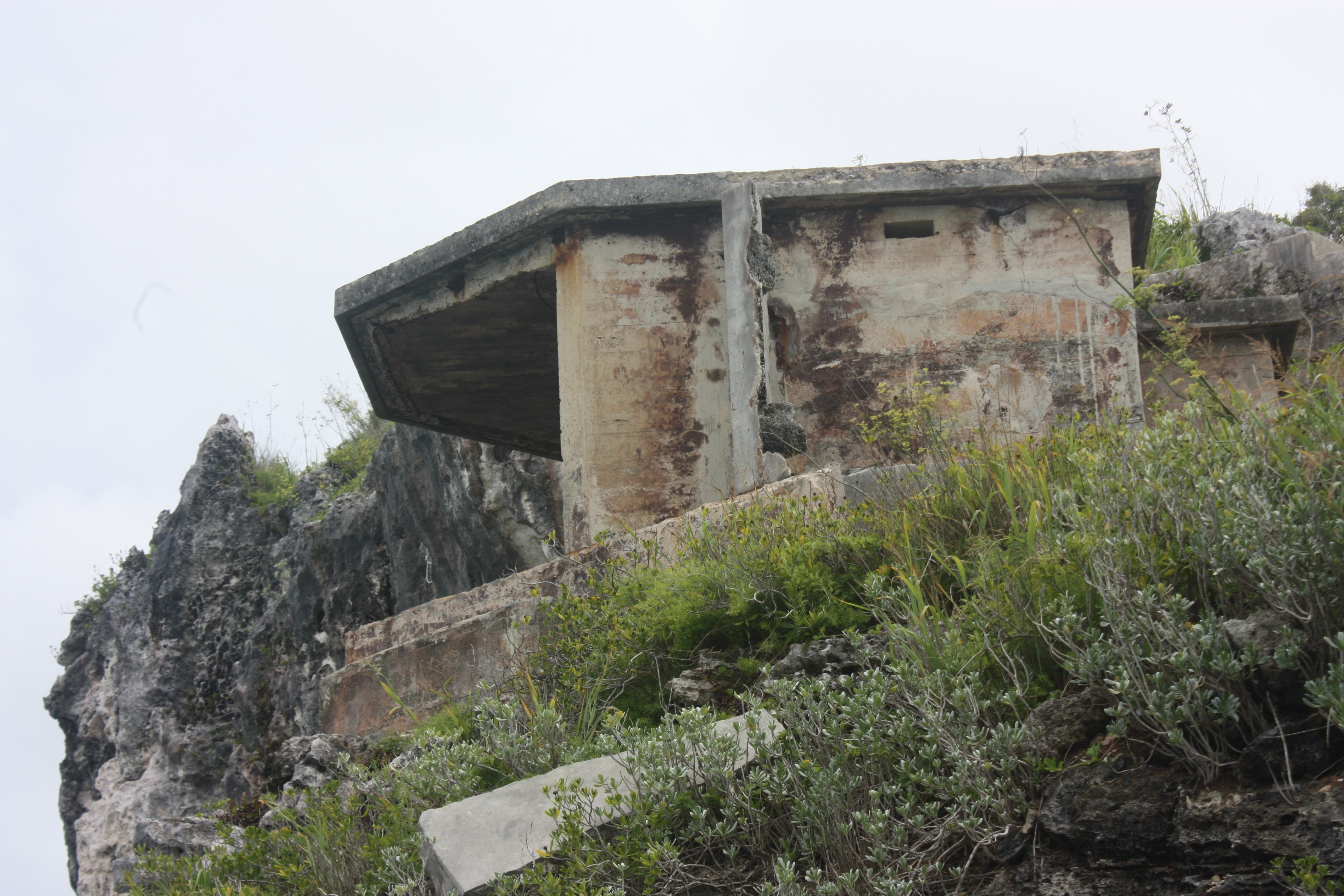 A building, which had contained an electric search light operated by the Royal Engineers and its part-time reserve, the Bermuda Volunteer Engineers, built into the face of the cliff at St. David's Battery, on St. David's Island, Bermuda.